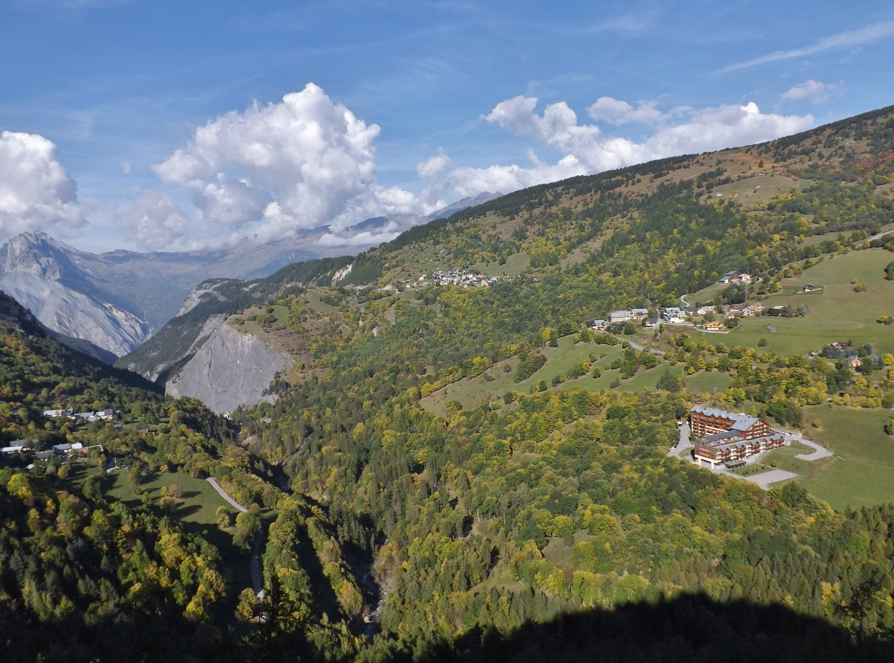 Panoramic sight, from the heights of Valloire, on the low side of the Valloirette river valley, with the Maurienne valley situated at the background, in Savoie, France.